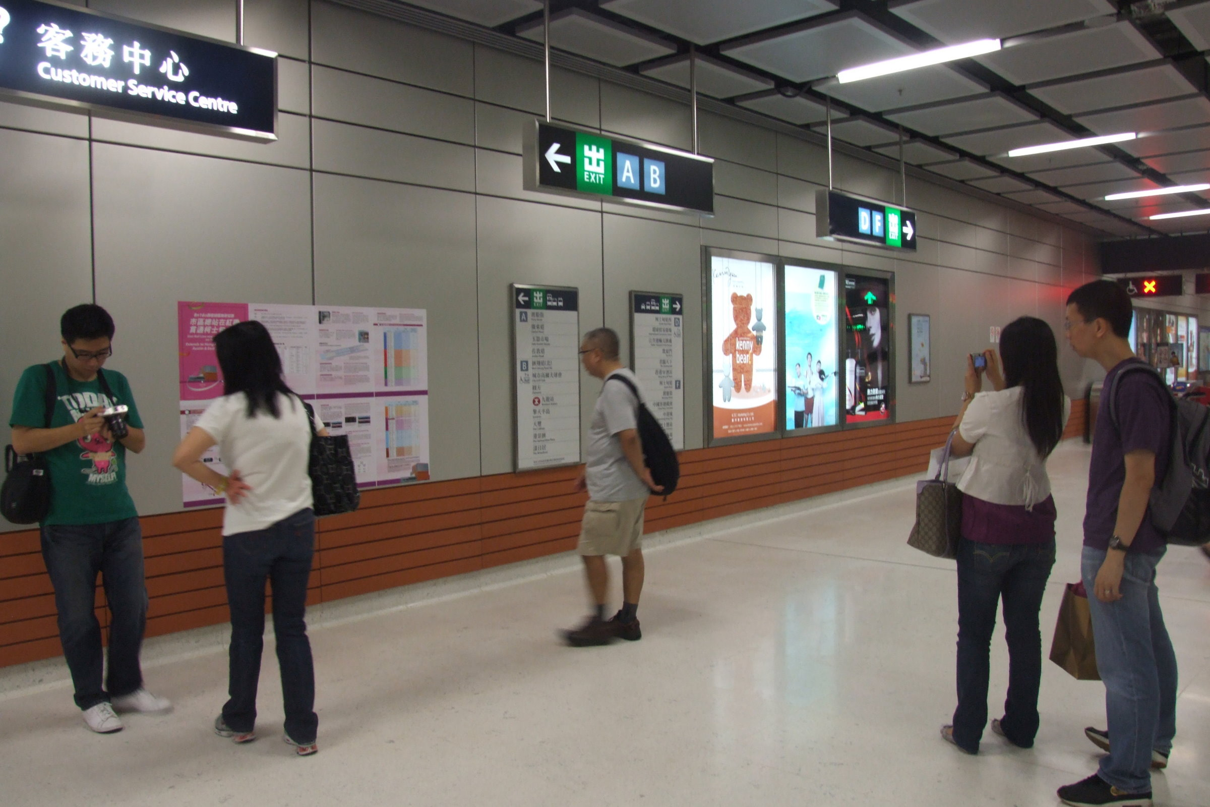 Many people vista Austin station and took photos. 中文（香港）: 大批市民參觀柯士甸站及拍照留念。